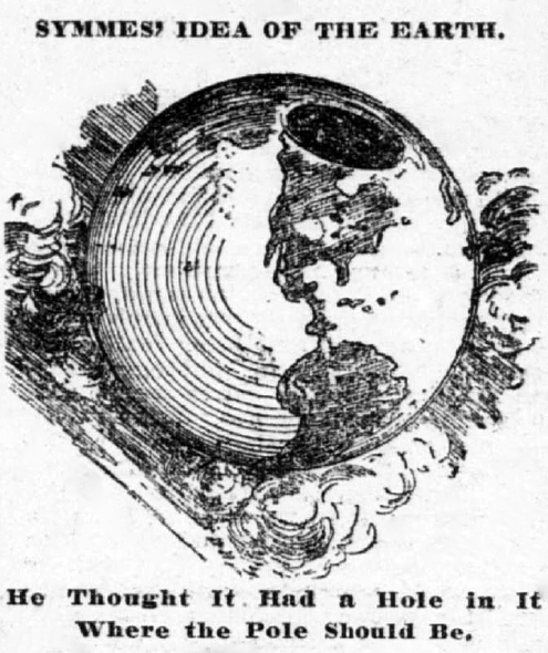 Symmes' Idea of the Earth